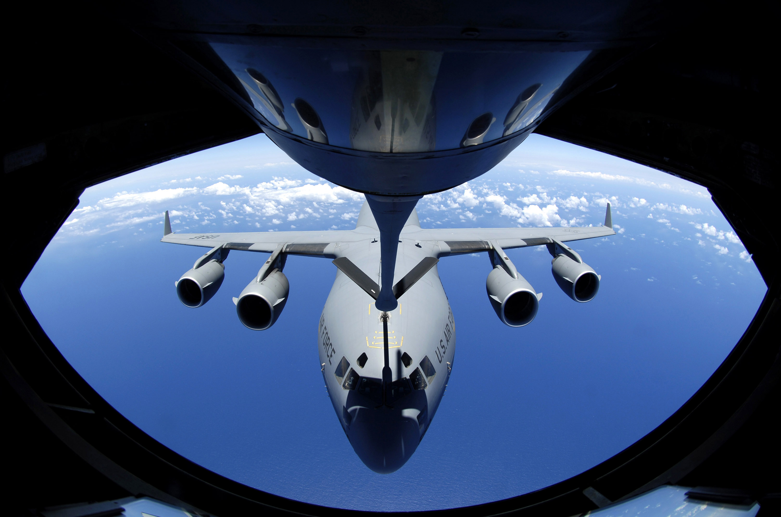 A C-17 Globemaster III approaches the boom of a KC-135 Stratotanker June 18 during aerial refueling practice. A KC-135 Stratotanker from the 909th Air Refueling Squadron, at Kadena Air Base, Japan is at Hickam Air Force Base, Hawaii, practicing with a C-17 Globemaster III from the 535th Airlift Squadron for the Air Mobility Command Rodeo.